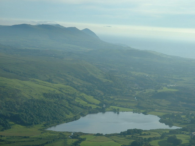 Llyn Nantlle Uchaf. Looking southwest. The hills in the background are Yr Eifl [The Rivals] on the Lleyn Peninsula